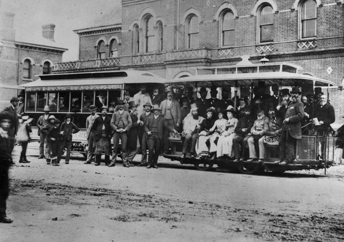 Melbourne’s first cable tram service; between Bridge Road, Richmond, and Spencer Street via Flinders Street, 11 November 1885.